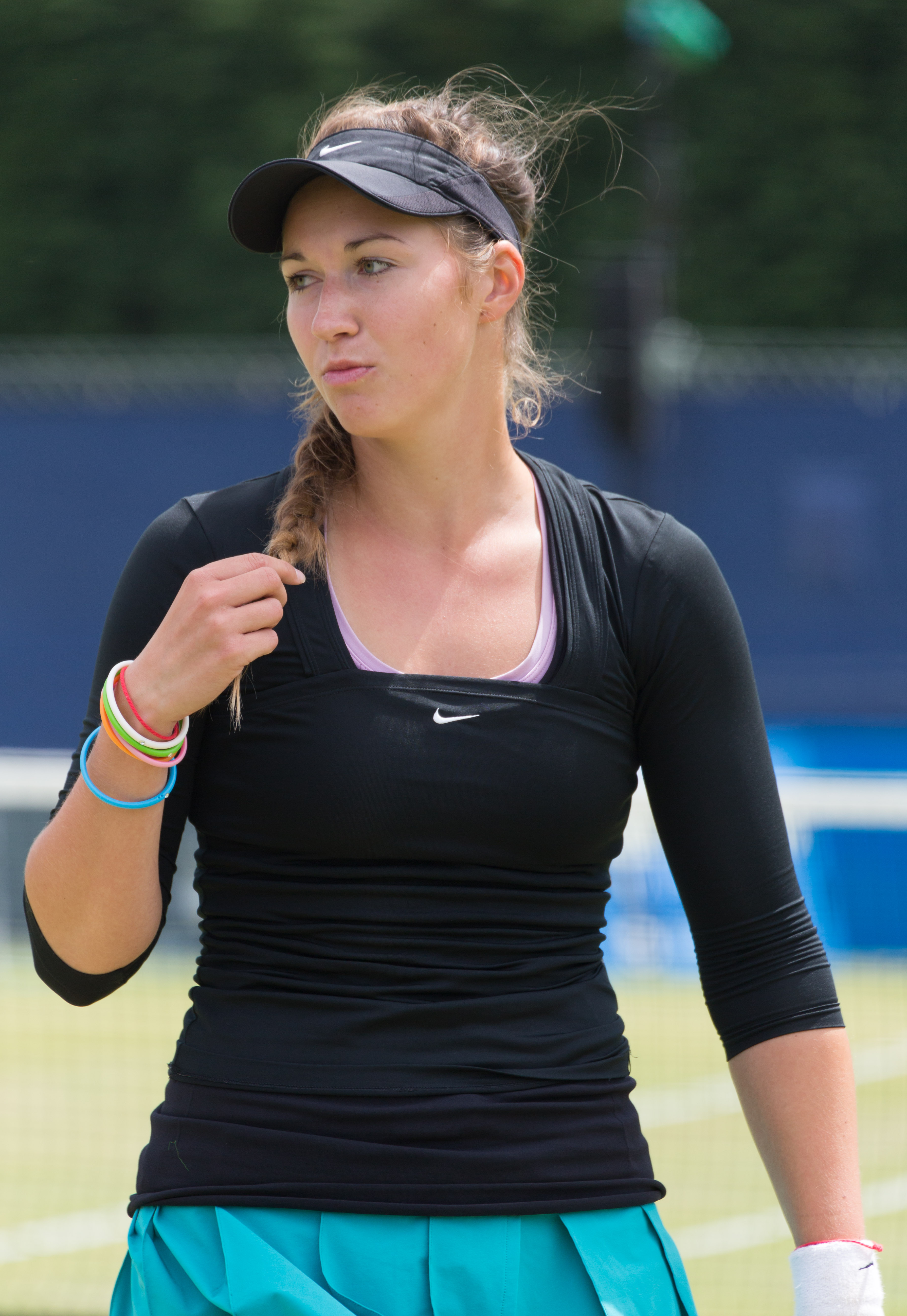 Mia Nicole Eklund of Finland at the Aegon Surbiton Trophy in Surbiton, London.